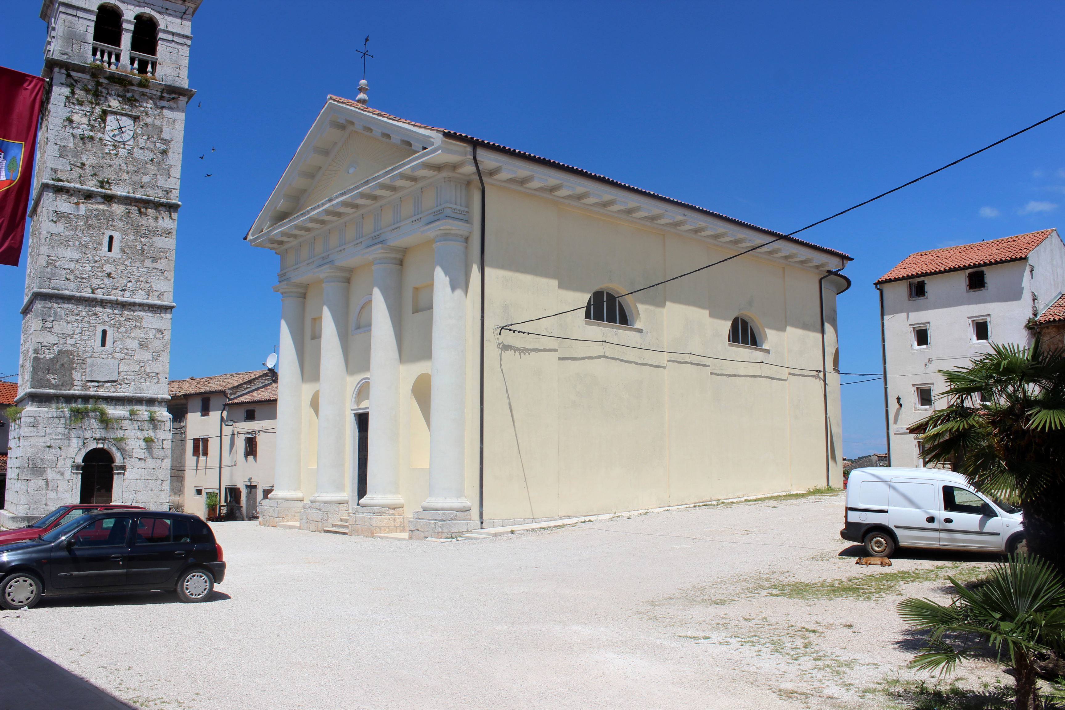 Church of Saints Cyricus and Julitta, with the bell tower, in Višnjan, Croatia